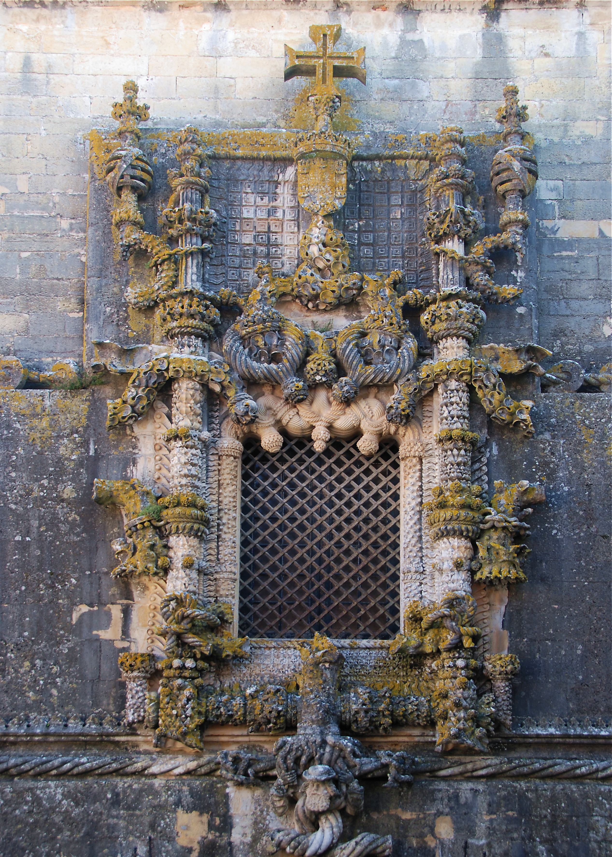 Convent of Christ, Tomar, Portugal. Window of the Chapterhouse, made by Diogo de Arruda, between 1510 and 1513.